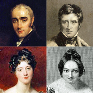 Clockwise from top left: John Wilson Croker John Copley, 1st Baron Lyndhurst Henrietta, Lady Sykes (1792–1846) Frances Vane, Marchioness of Londonderry